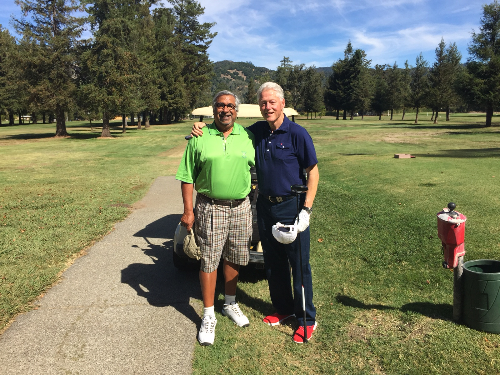 Vinod Gupta along with President Bill Clinton while golfing together